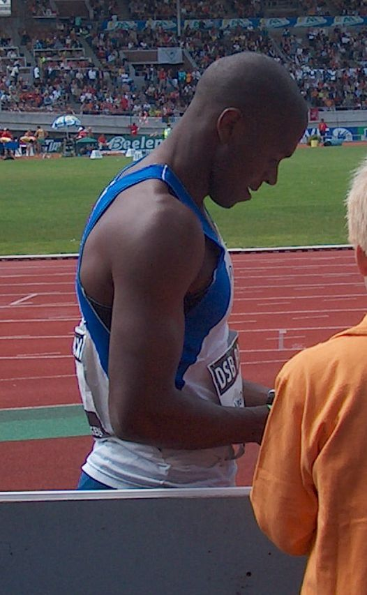 Eugene Martineau dutch decathlete at dutch championships 2007, Amsterdam